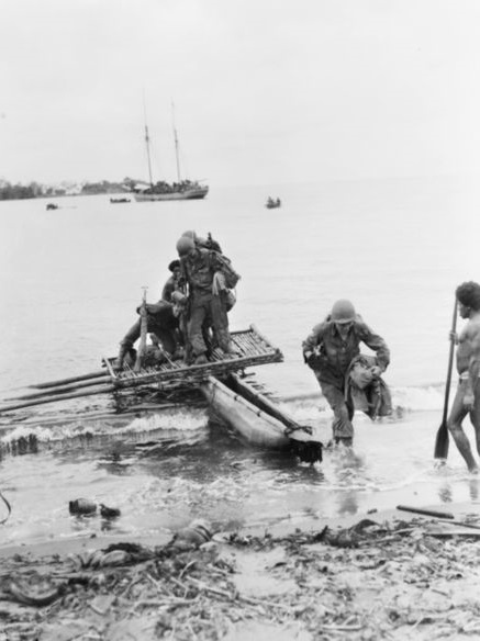 BIAMU, ORO BAY, NEW GUINEA. 1942-11-11. UNITED STATES TROOPS OF THE 1ST BATTALION, 128TH REGIMENT, 32ND UNITED STATES DIVISION LANDING AT BIAMU VILLAGE, ABOUT 17 MILES FROM BUNA, DURING THE ADVANCE ON THE JAPANESE FORCES OCCUPYING THE BUNA-GONA-SANANANDA AREAS.